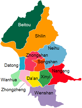 Districts of Taipei including their names